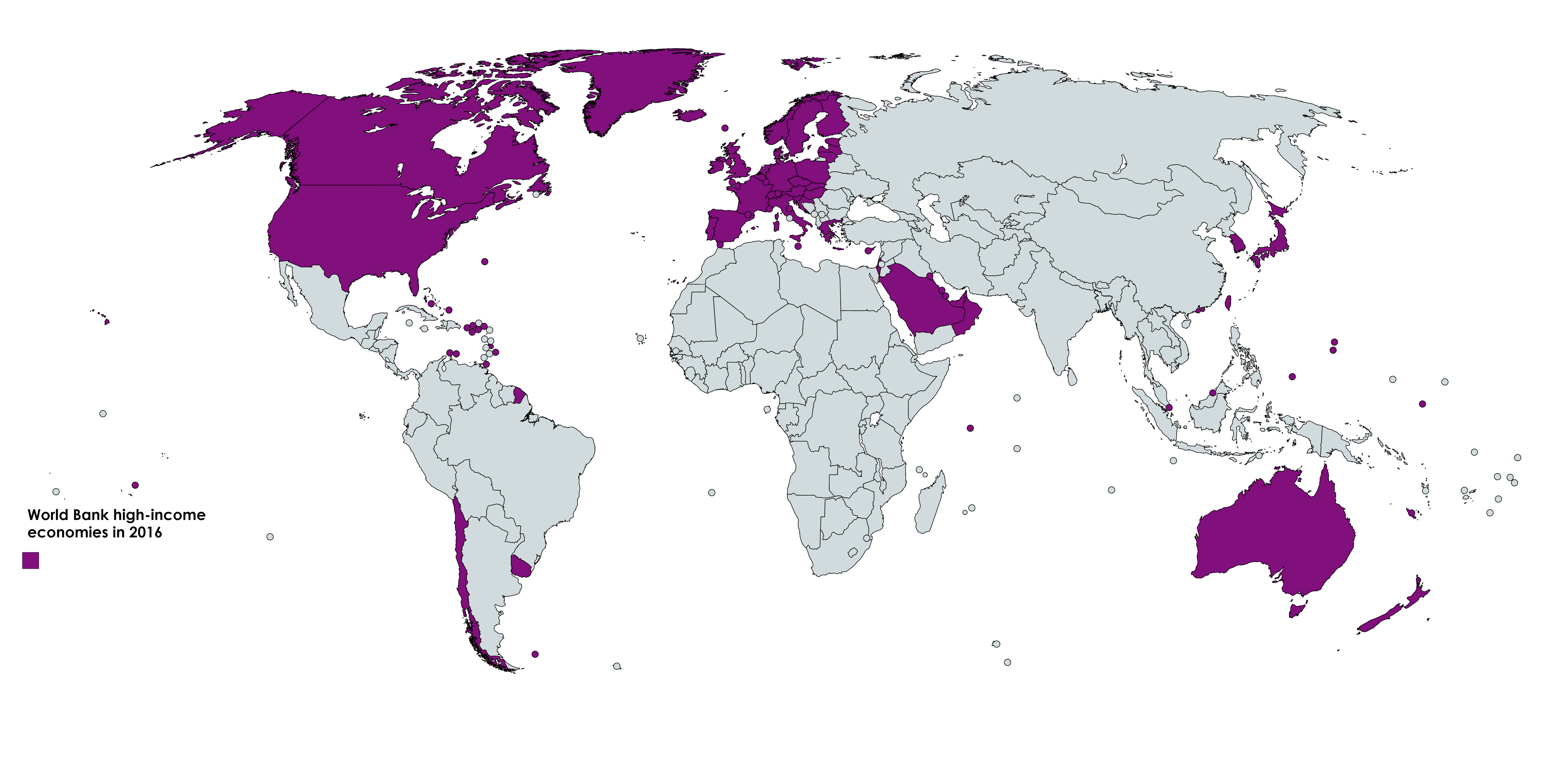 World Bank high-income economies in 2016